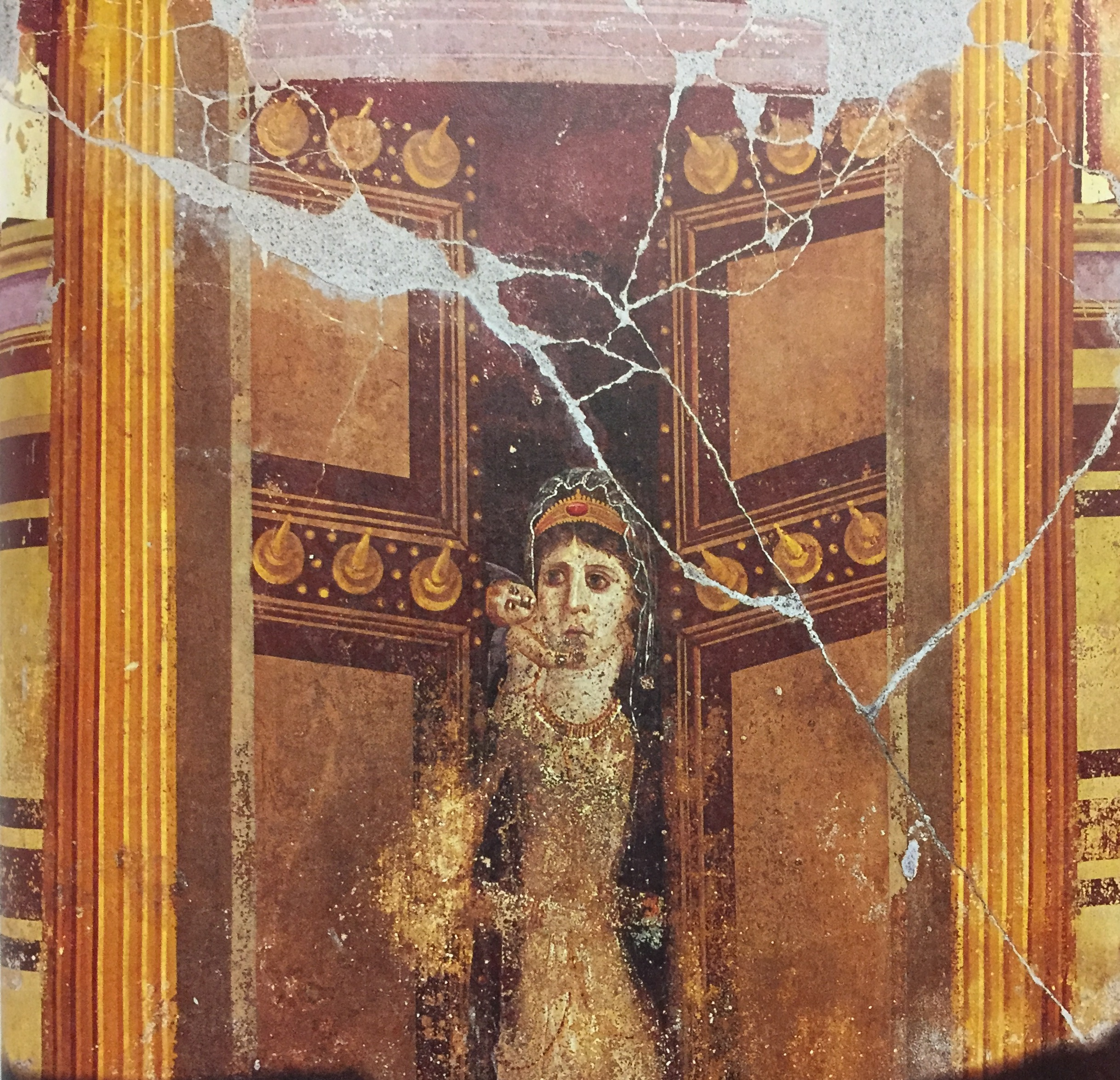 An ancient Roman wall painting in Room 71 of the House of Marcus Fabius Rufus at Pompeii, Italy, showing Venus with a cupid's arms wrapped around her. It is most likely a depiction of Cleopatra VII of Ptolemaic Egypt as Venus Genetrix, with her son Caesarion as a cupid. It was most likely painted in conjunction with the September 46 BC foundation of the Temple of Venus Genetrix in the Forum Iulium (i.e. Forum of Caesar) by Julius Caesar, where he erected a gilded statue depicting Queen Cleopatra (as described by Appian in his 2nd-century AD Bella Civilia). Further information on this painting and the identification as Cleopatra VII and Caesarion in it can be found on page 175 in the following source: * Roller, Duane W. (2010). Cleopatra: a biography. Oxford: Oxford University Press. ISBN 9780195365535. For further photographs and explanation, see "VII.16.22 Pompeii. Casa di Fabio Rufo or House of M Fabius Rufus." For further explanation, validation, sourcing, identification as Cleopatra and Caesarion, and other photographic illustrations of the painting, see the following source: * Walker, Susan. "Cleopatra in Pompei?" in Papers of the British School at Rome, 76 (2008), pp. 35-46 and 345-8. (Courtesy the Cambridge University Press online.) * For further photographic illustrations and descriptions of the painting, see Mazzoleni, Donatella (2004). Domus: Wall Painting in the Roman House. Los Angeles: J. Paul Getty Museum. ISBN 0892367660, p. 399. Essay and texts on the sites by Umberto Pappalardo; photographs by Luciano Romano.